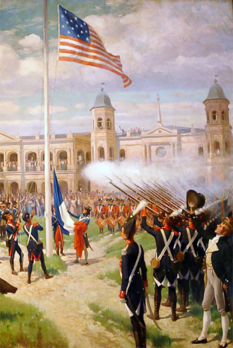 first raising of the USA flag with the Louisiana Purchase, in the Place d'Armes (now Jackson Square), New Orleans. Ceremony was March 10, 1804 [1] Painted by Thure de Thulstrup on commission to commemorate centennial of the event. The painting has been praised for the research and historical accuracy which went into the period depiction. Painting is on display in the Cabildo Museum.